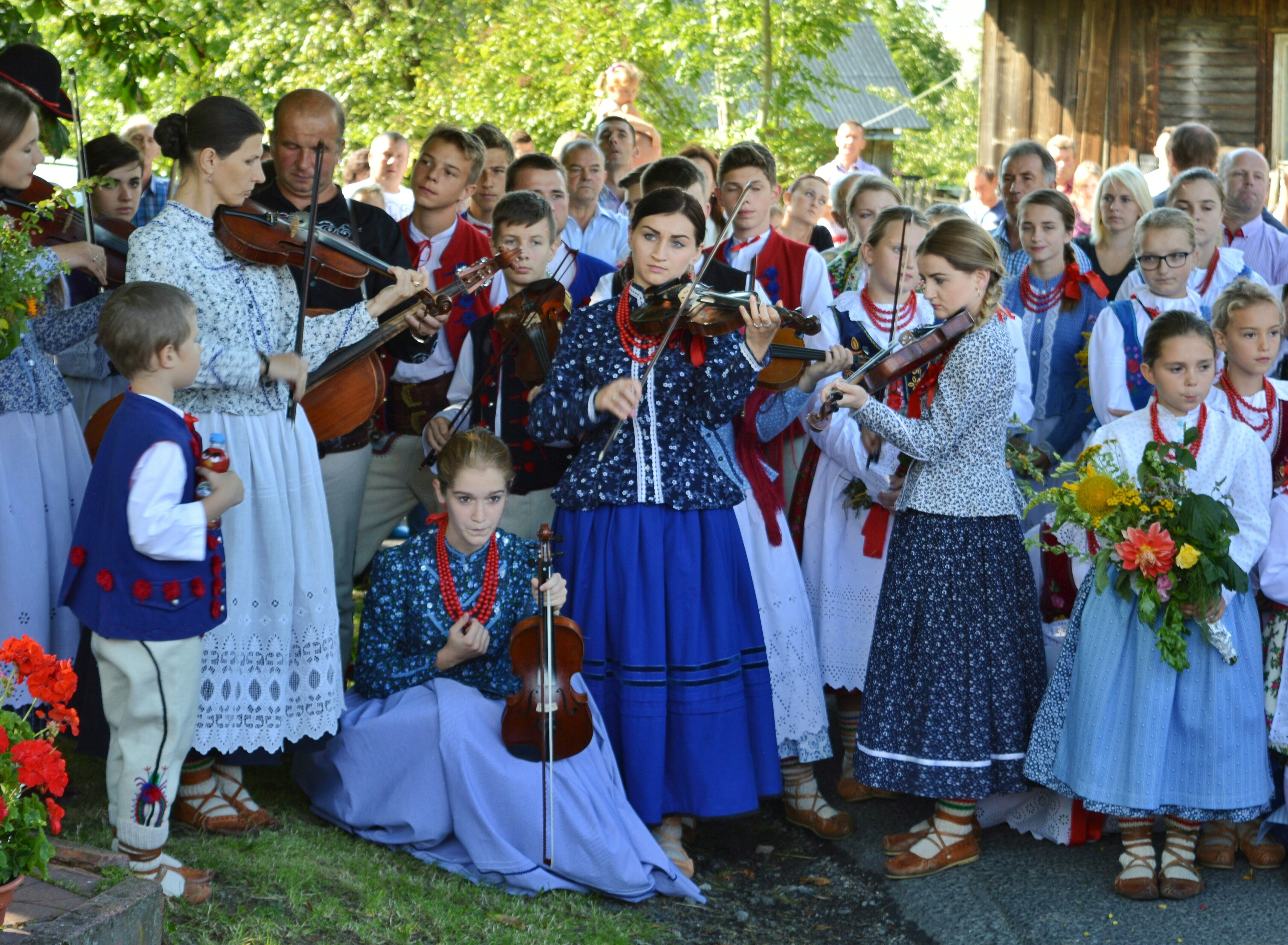 "Grojcowianie" folk music group at the Assumption of the Holy Mary mass in Juszczyna, August 15, 2016